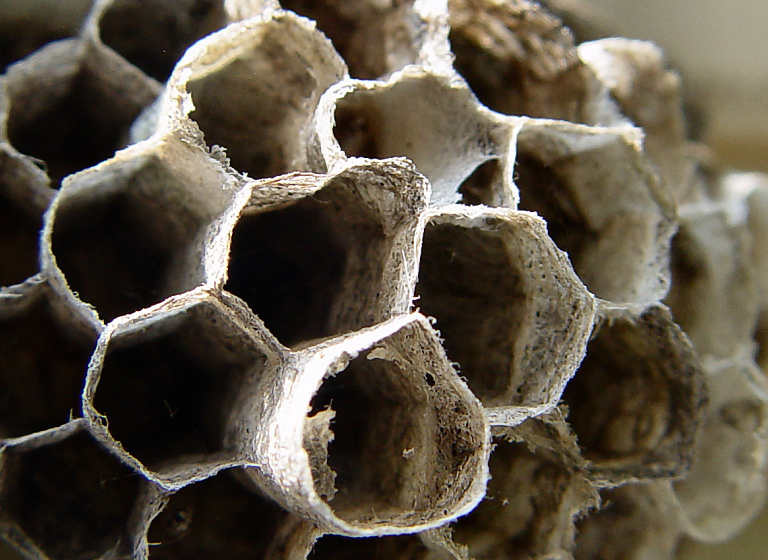 Paper Wasp Nests